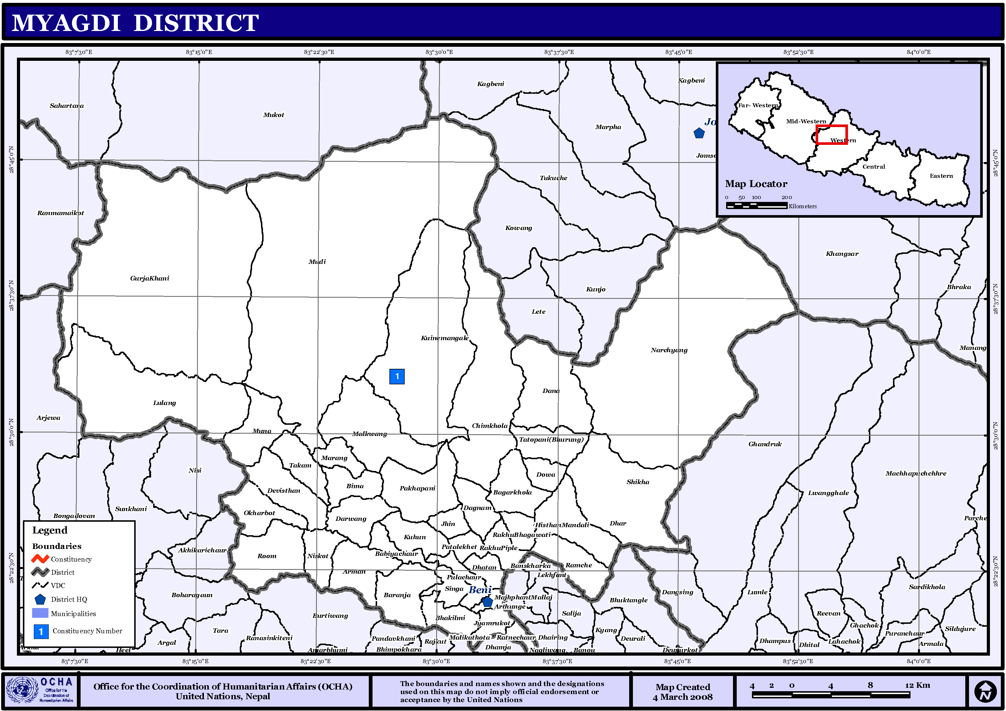 Map displaying Village Development Committees in Myagdi District, Nepal